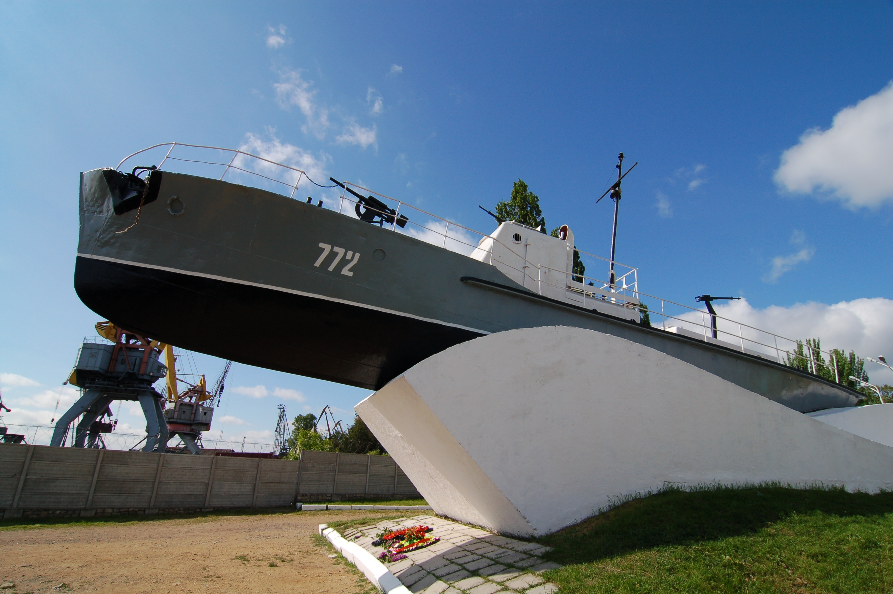 The monument to sailors of the Azov Flotilla in Taganrog who participated in the defense of Taganrog in 1941 and liberation of Taganrog in 1943.